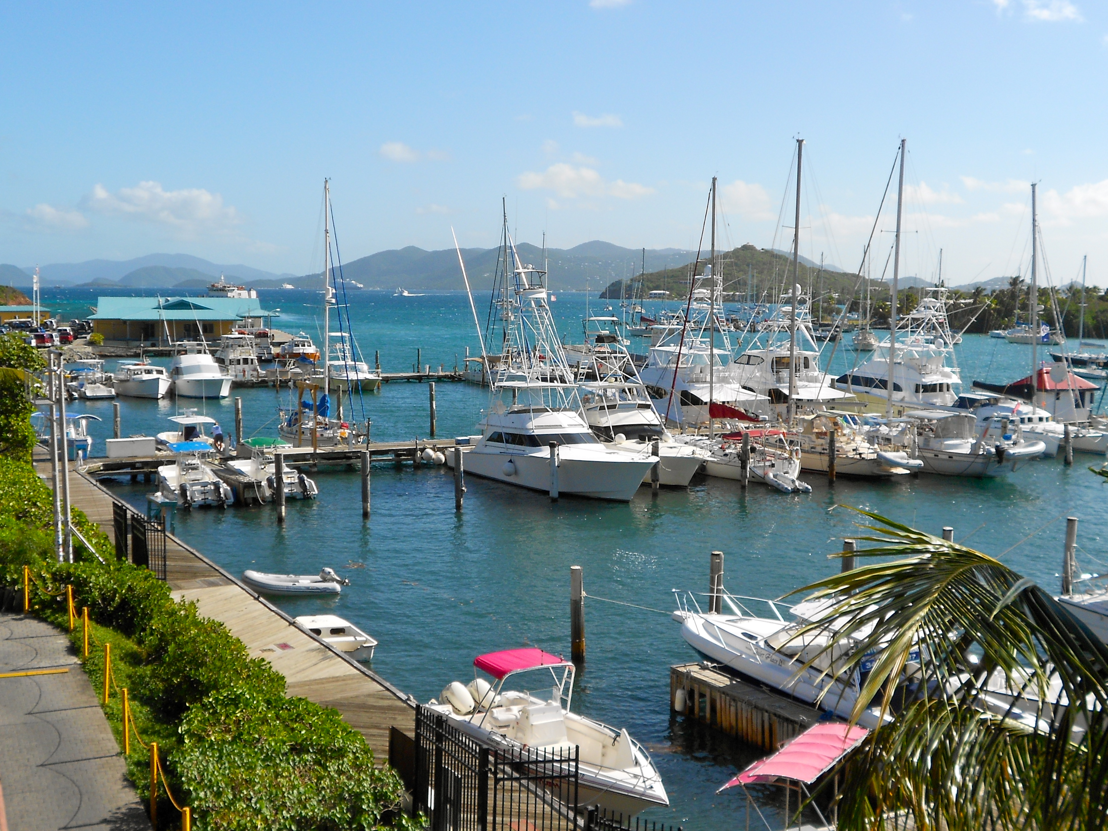 Harbor in Red Hook, on St. Thomas island, US Virgin Islands